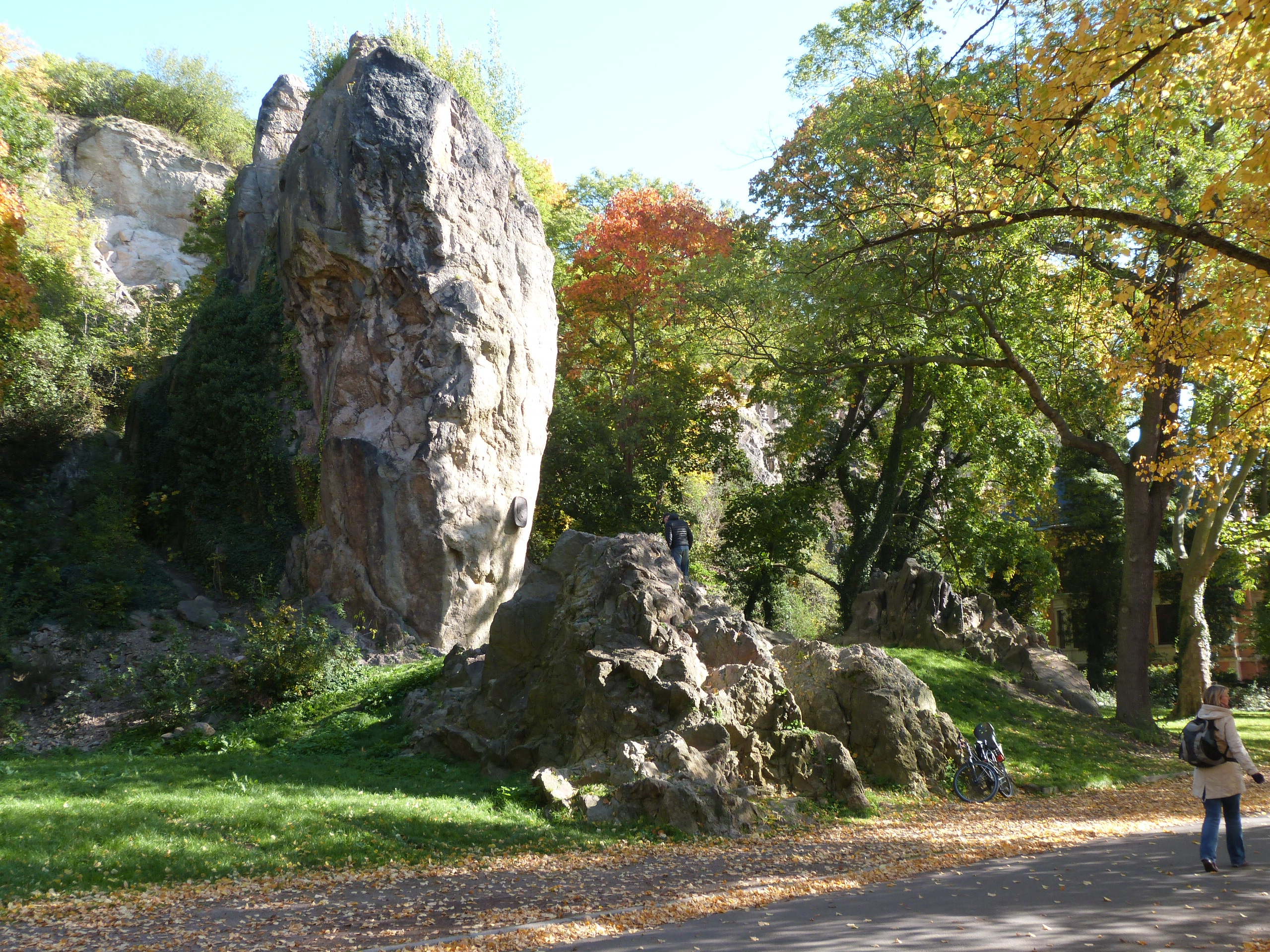 Heinrich Heine Rock, Street Riveufer, Halle/Saale (Saxony-Anhalt)